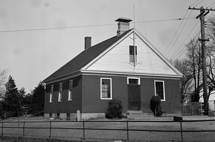 1. Historic American Buildings Survey Frank O. Branzetti, Photographer Feb. 24, 1941 (a) EXT.-FRONT & SIDE, LOOKING NORTHEAST HABS MASS,11-FRANK,1-1